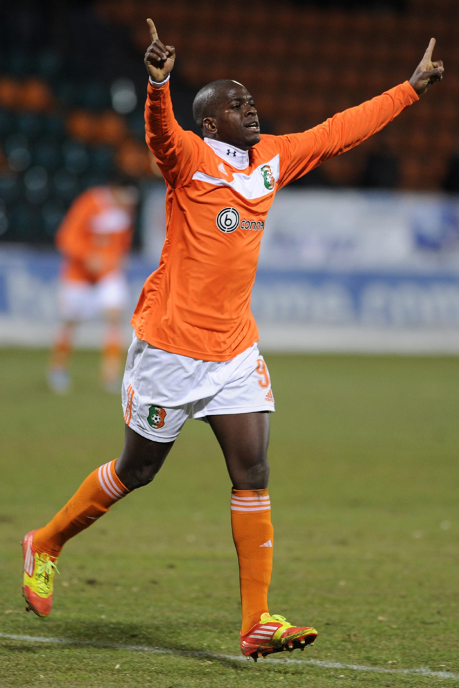 Marcelo Nicácio